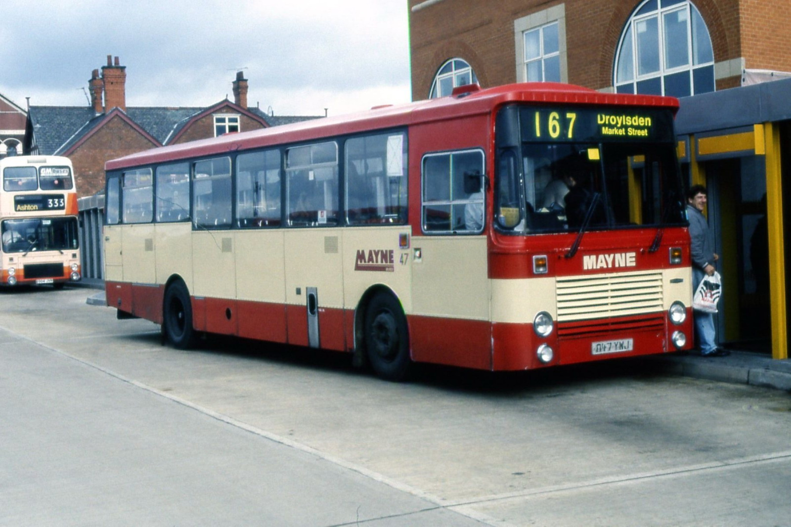 Mayne 47 A 47YWJ Dennis Falcon / Marshalll Camair 80 seen in Ashton Bus Station. This bus was new to Chesterfield Transport and passed to Choice Travel after service with Maynes